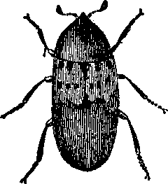 Dermestes lardarius (Bacon Beetle).